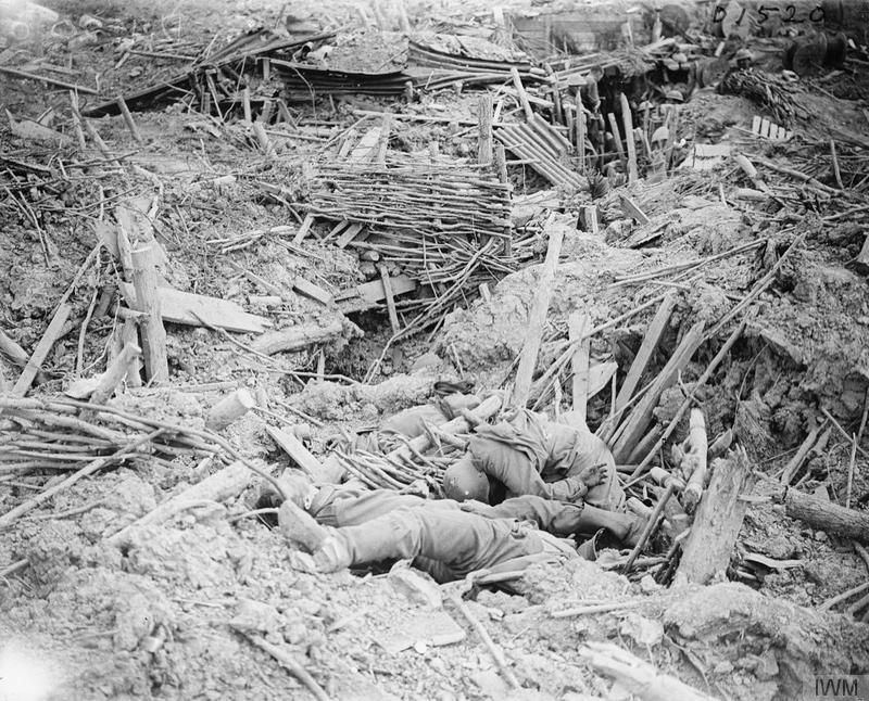 The Battle of Messines, June 1917 British troops in a captured, badly smashed by the British bombardment, German trench on Messines Ridge. In the foreground are several German dead soldiers. 7 June 1917.